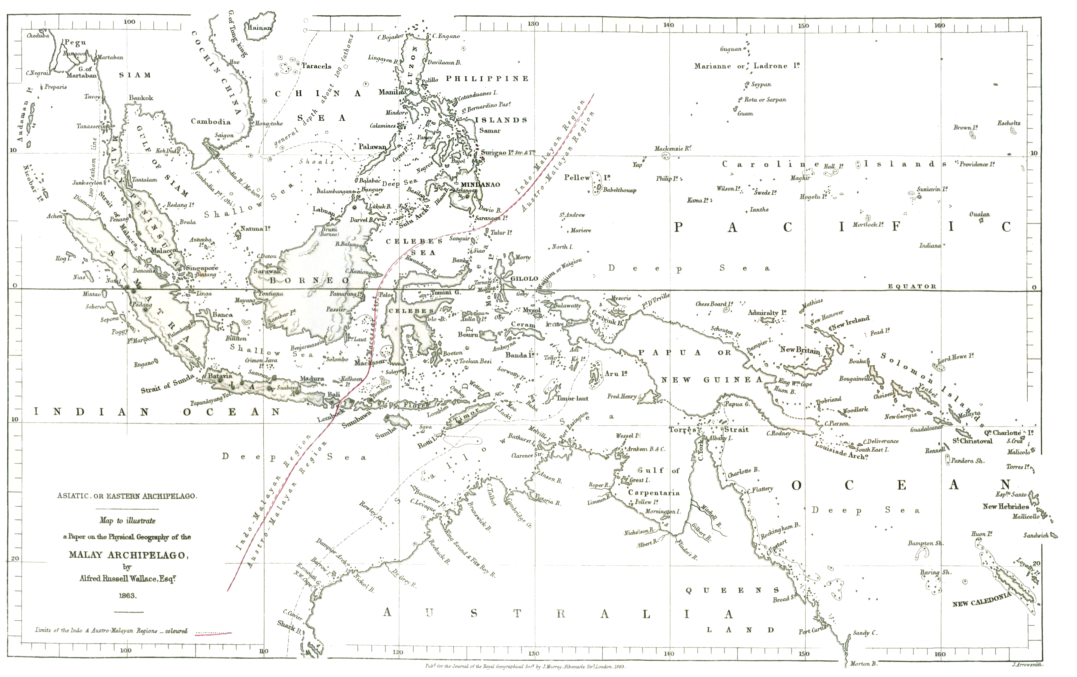 The original drawing of the 'Wallace Line' showing the division between Asian and Australasian flora and fauna reproduced at the internet archive